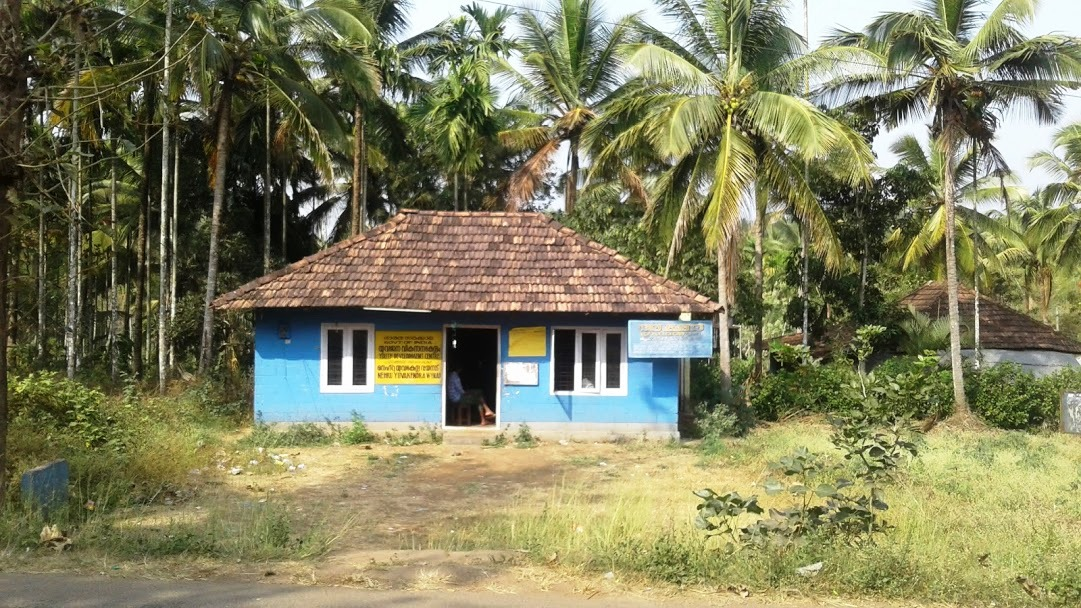 Wayanad district, Kerala state, India.